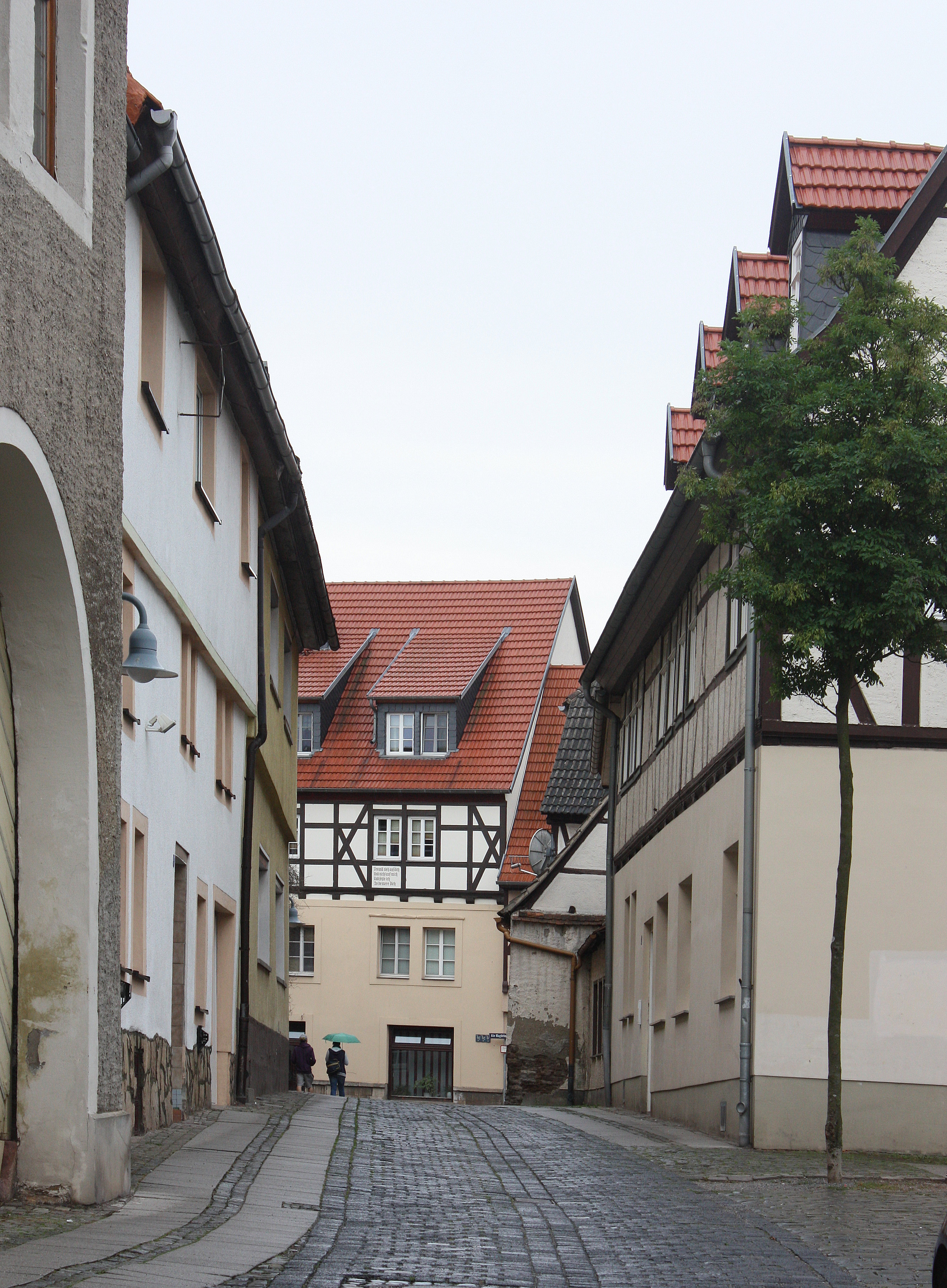 Sangerhausen, the Wassertorstraße This is a photograph of an architectural monument. 84316